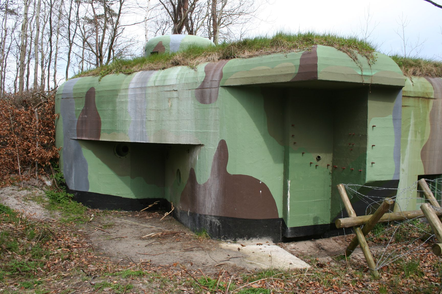 Schron Saragossa, Jastarnia [1]